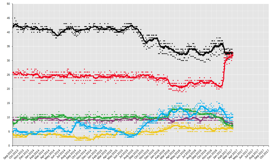 Evolution of voting estimations in German opinion polling since the 22 September 2013 federal election and during the run up to the next federal election, scheduled for 22 October 2017 at latest. Points represent results of individual polls. Trend lines represent exponentially weighted moving averages.